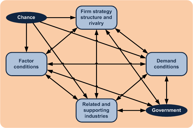 Porter diamond model. [1]